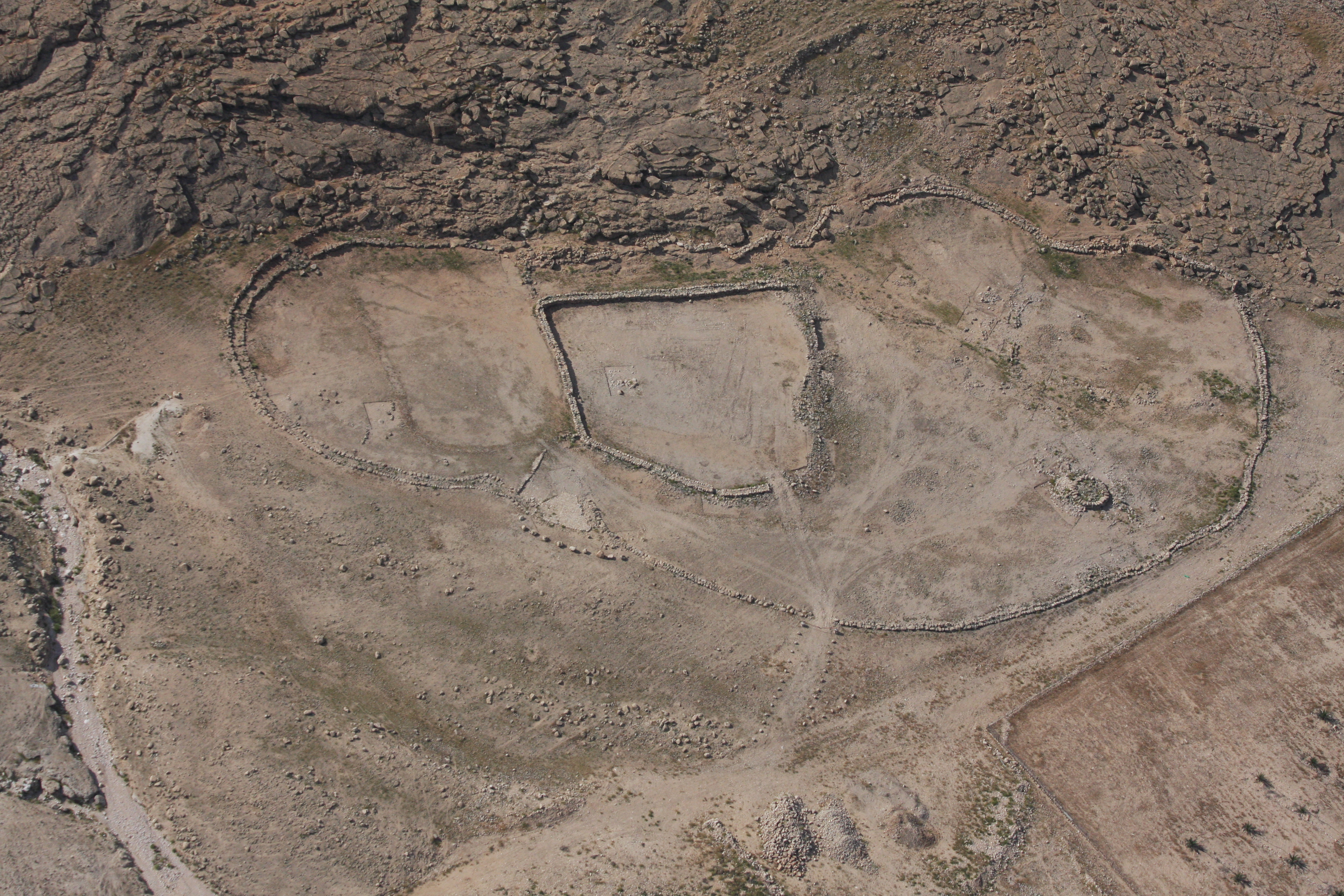 Gilgal Argaman Gilgal is a place name mentioned by the Hebrew Bible